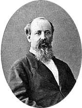 United States Navy officer Gustavus Fox